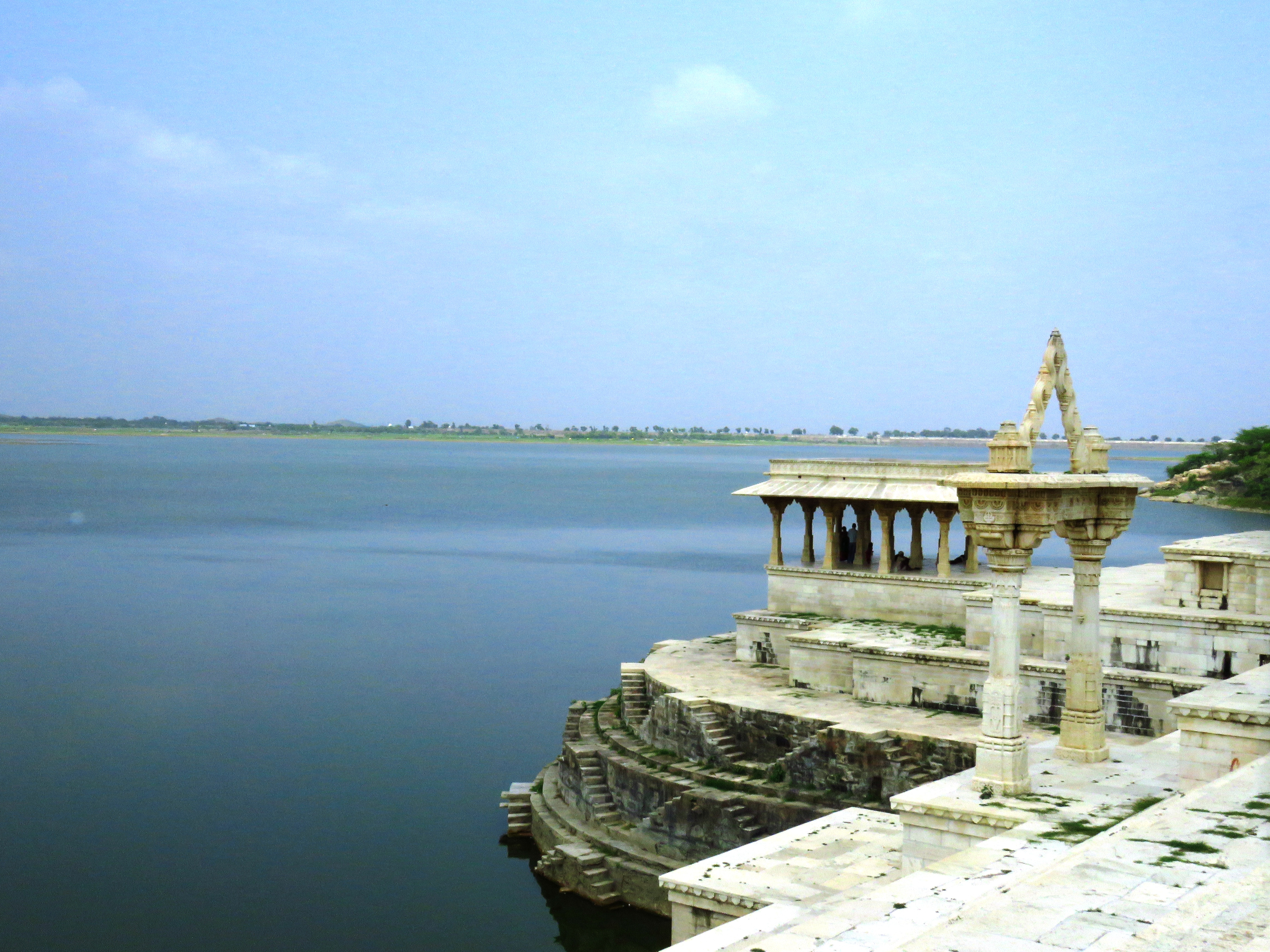 Ghat with inscriptions paviions and Toranas (together with adjacent area comprised in S.Plot No. 344).